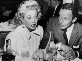 1955 Press Photo Frank Sinatra With Actress Robin Raymond